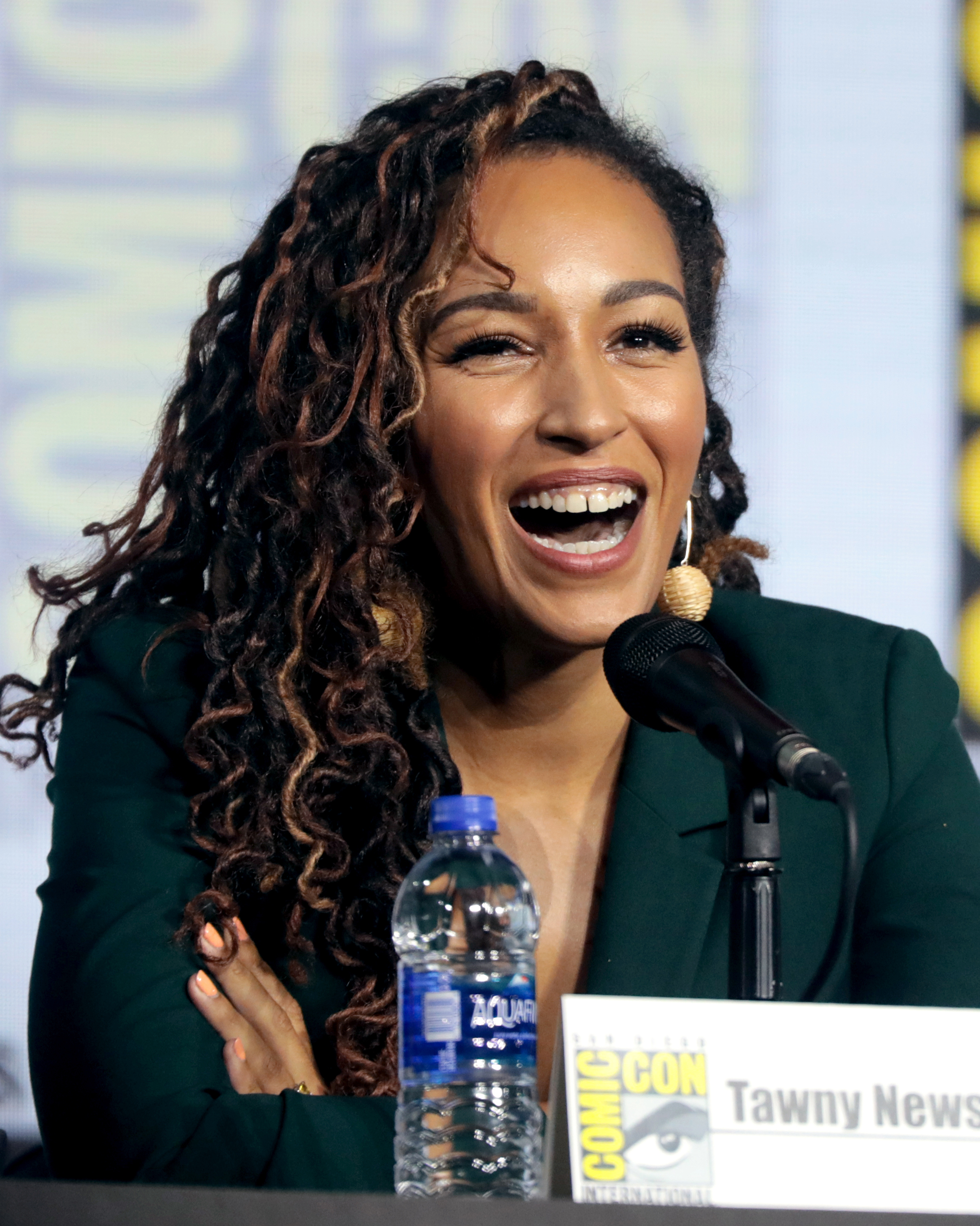 Tawny Newsome speaking at the 2019 San Diego Comic-Con International in San Diego, California.